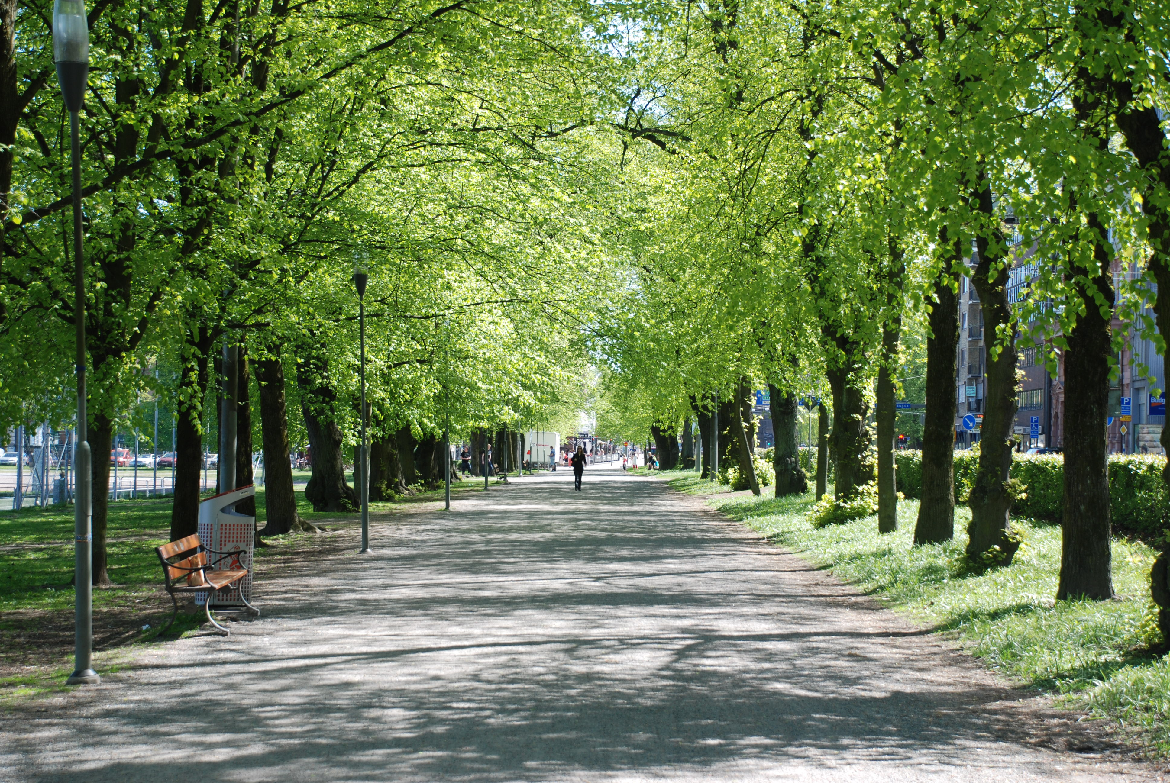 The alley Gamla Allén at Heden in Göteborg.